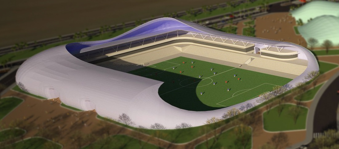 Tiberias Football Stadium